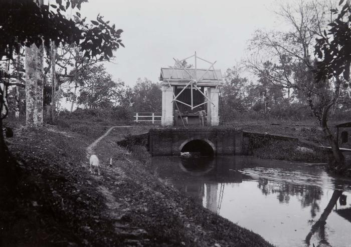 Sluice at the 'Susanna's Daal' plantation